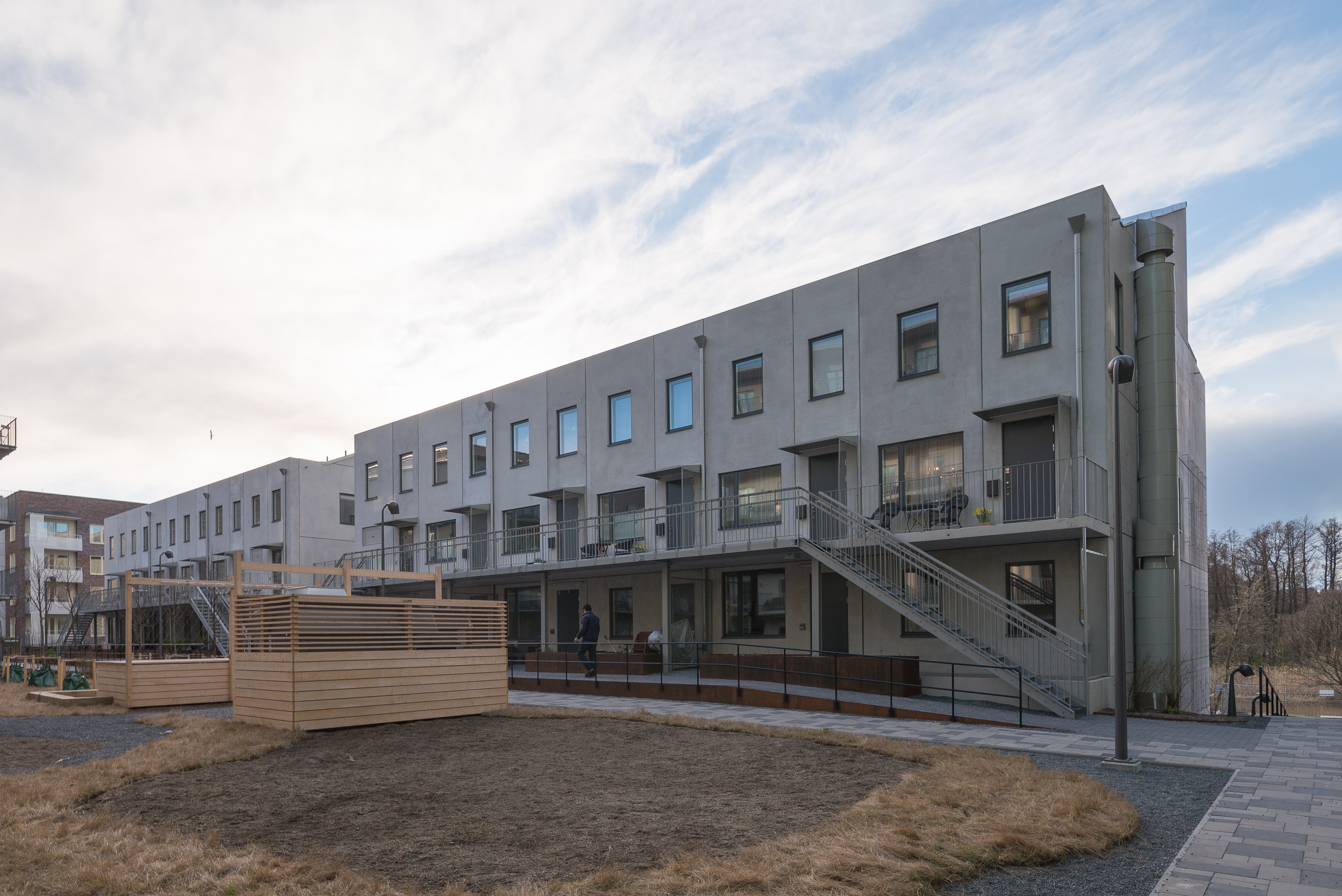 Stora Sjöfallet 2 is part of the city block Stora Sjöfallet in Norra Djurgårdsstaden, Stockholm. Sjöfallet 2 consists of 2 apartment buildings, built in 2016. Architects: JoliArk.